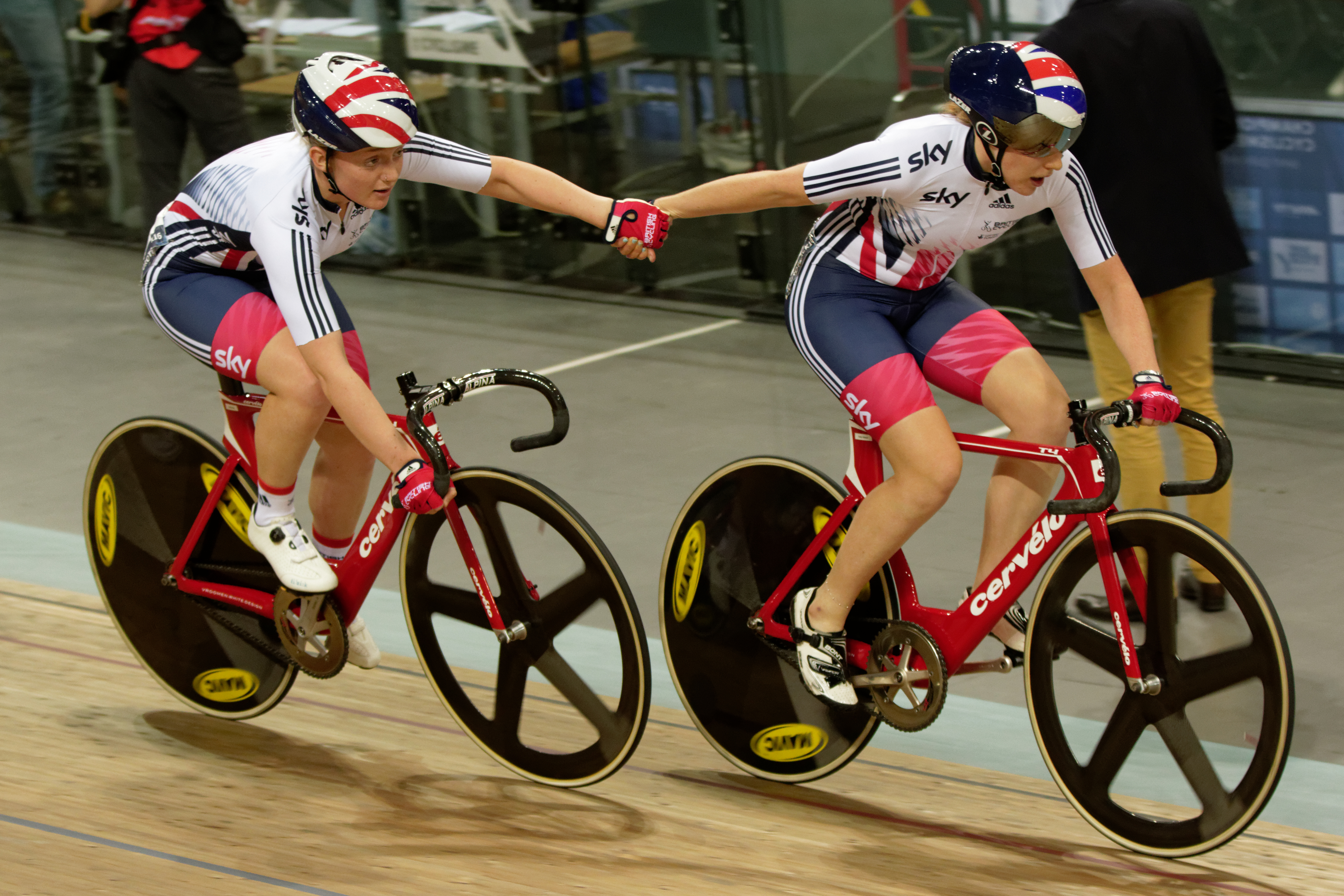 2016 UEC European Track Championships